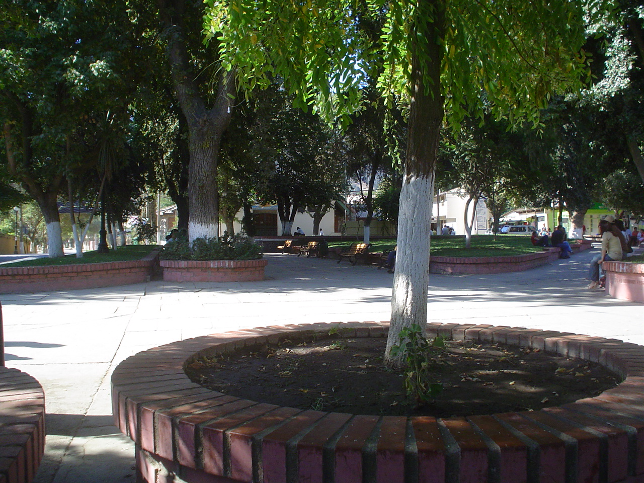 square Olmué Chile 5th region